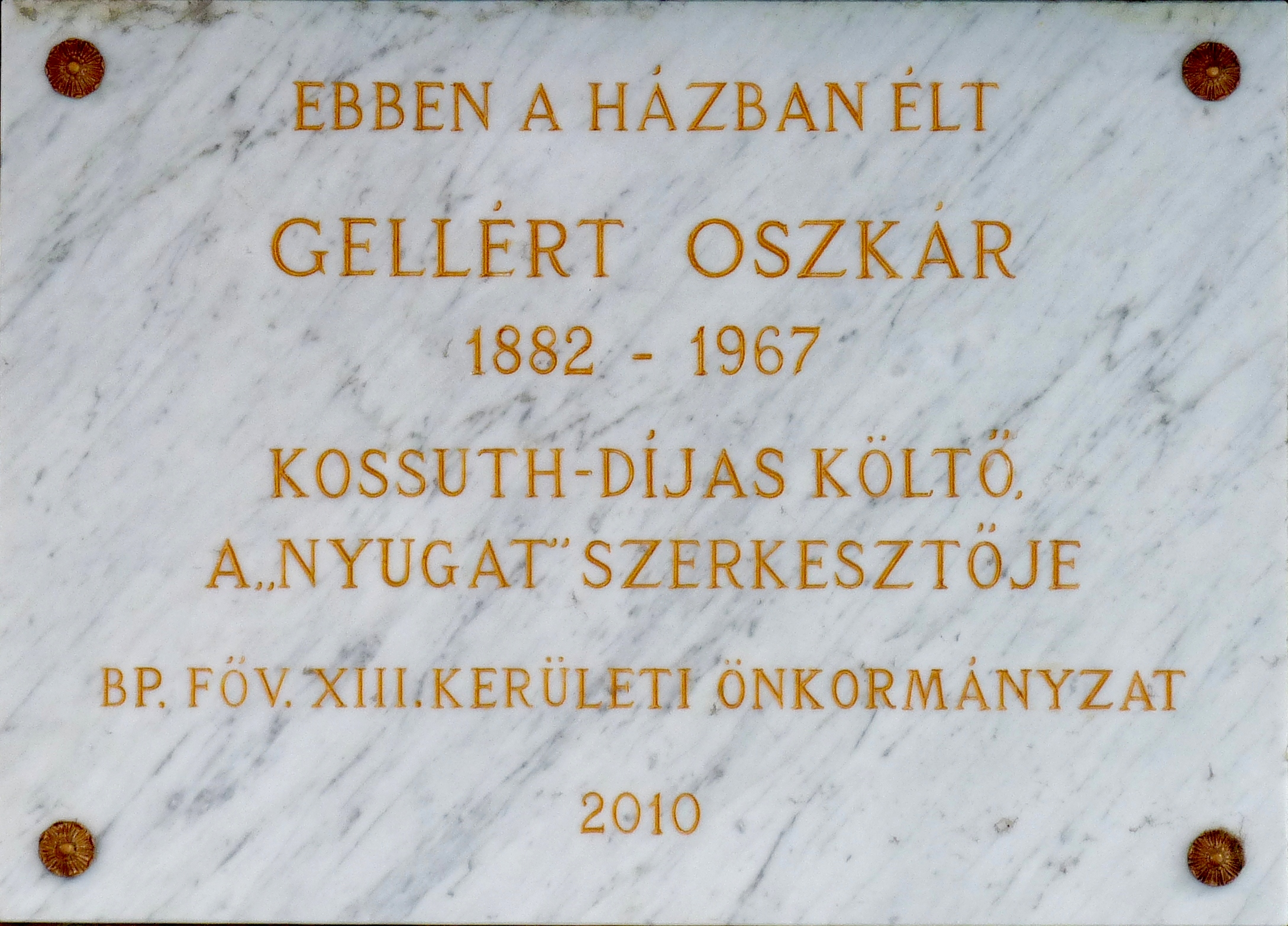 Oszkár Gellért commemorative plaque in Budapest District XIII, Radnóti Miklós Street No 19.